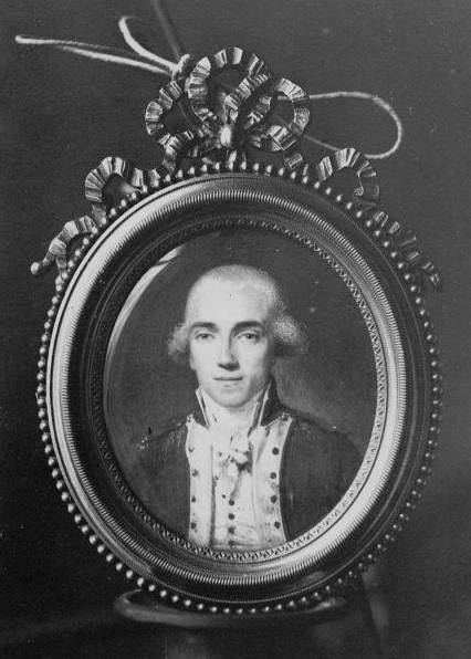 Photograph of a miniature portrait of Bernard Sarrette, founder of the Conservatoire de Paris